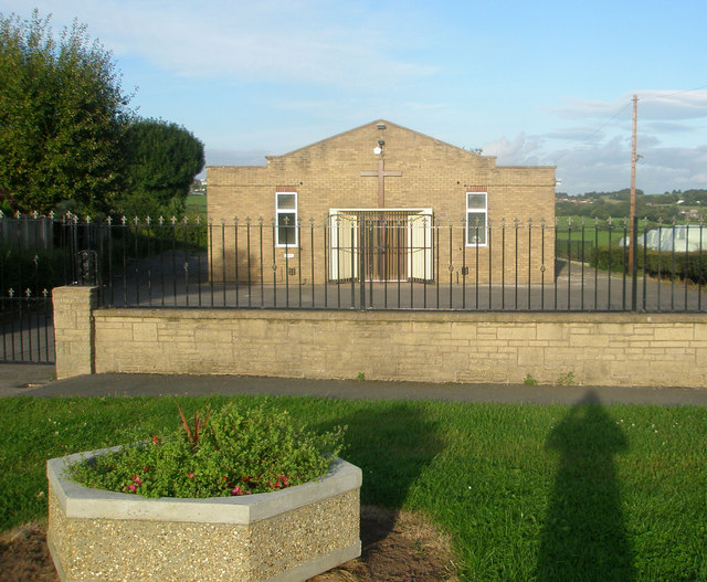 Assembly of God church, Ball Green, Norton-le-Moors, Staffordshire